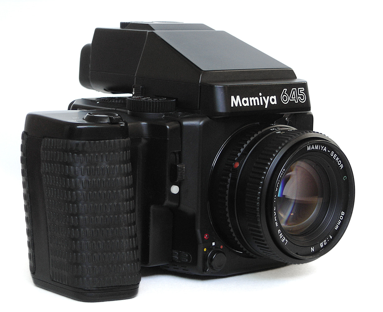 SLR medium format camera Mamiya 645 Super with 80 mm / 1:2.8 Mamiya-Sekor lens, power drive grip and AE Prism Finder. Marketing date : December 1985 until 1993.